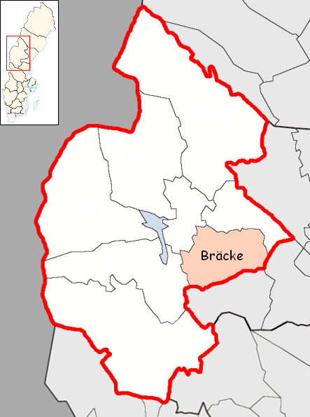 Bräcke Municipality in Jämtland County Designd by me, based on Image:Jämtland County.png